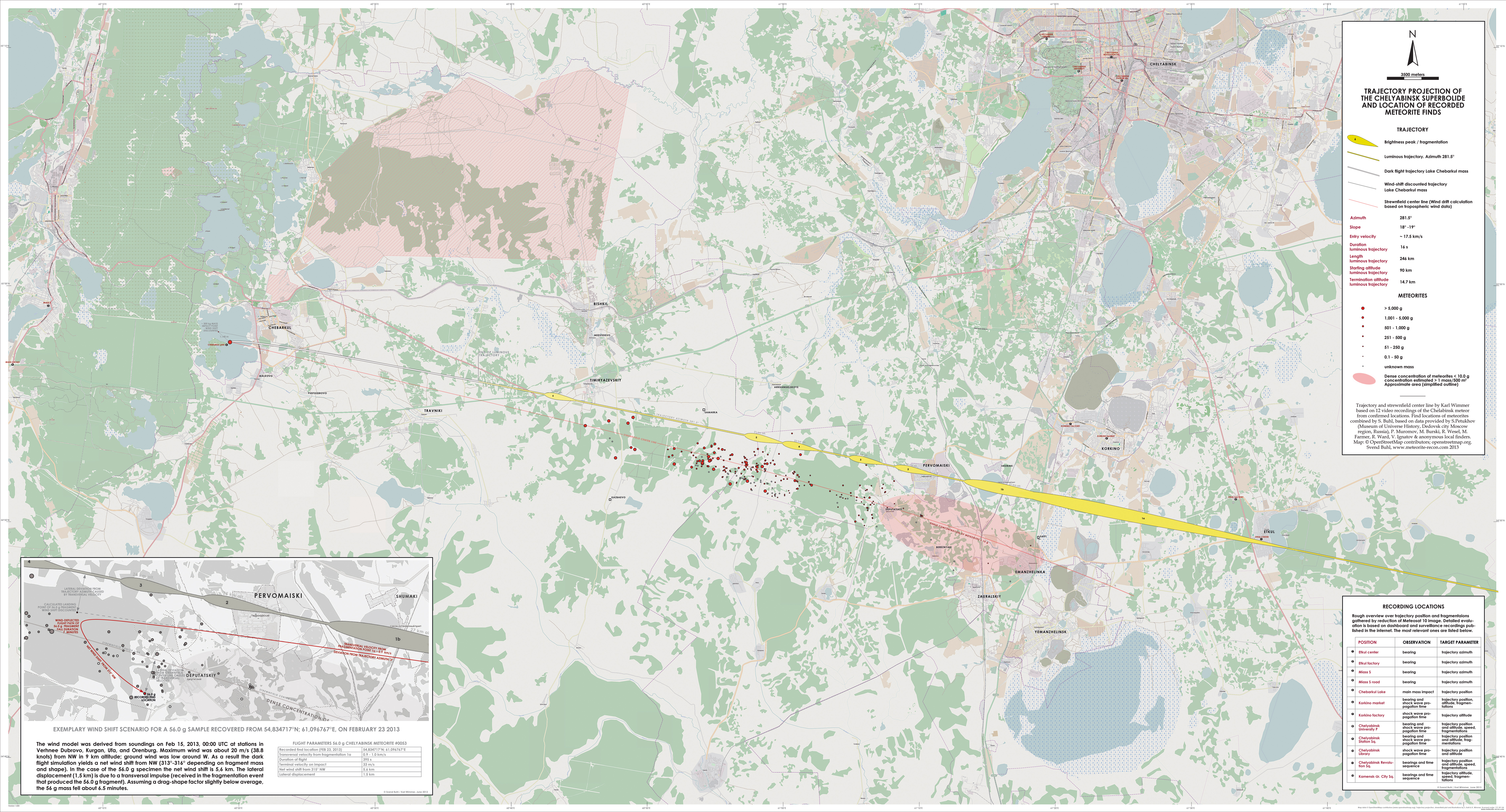 Trajectory projection of the Chelyabinsk superbolide and strewnfield map of recovered meteorites. The map shows the recorded find locations of 253 Chelyabinsk meteorites, of which 199 were documented with the weight of the respective masses (status of July 18, 2013, see map legend for data sources and further information.) A first version of this work was shown in the exhibition “Chelyabinsk 2013” in the Rieskratermuseum, Noerdlingen, Germany. The present version was updated for the University of Alberta’s exhibition "When the Sky Falls,” which was coinciding with the 76th annual meeting of the Meteoritical Society in Edmonton, Canada. For detailed excerpts and flight trajectories of individual masses refer to the source: Buhl S.: "Fire, ice and meteorites. The search for remains of the Chelyabinsk superbolide", Meteorite Recon, July 2013.